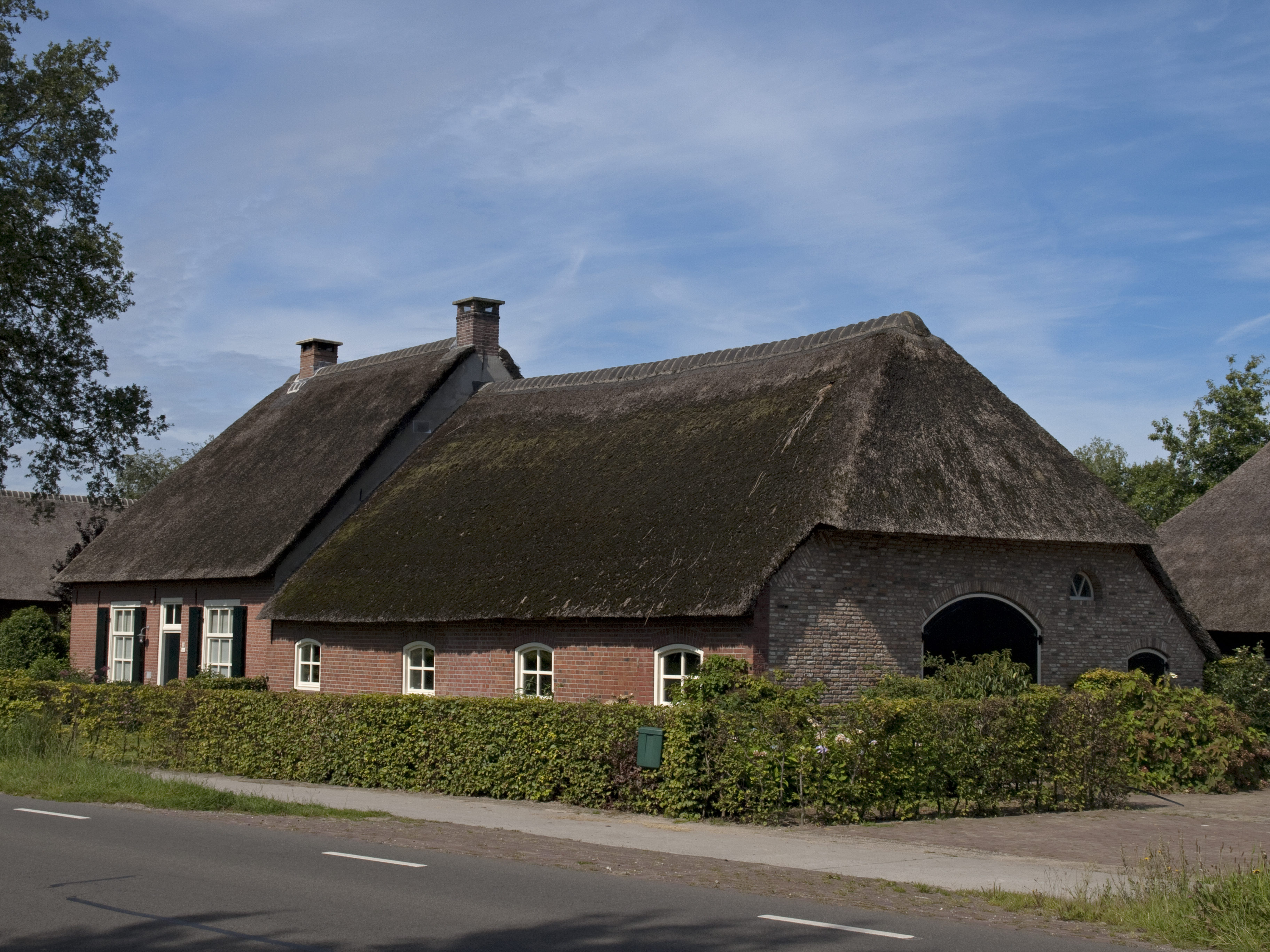 A farm in Nieuwkuijkseweg, Distelberg